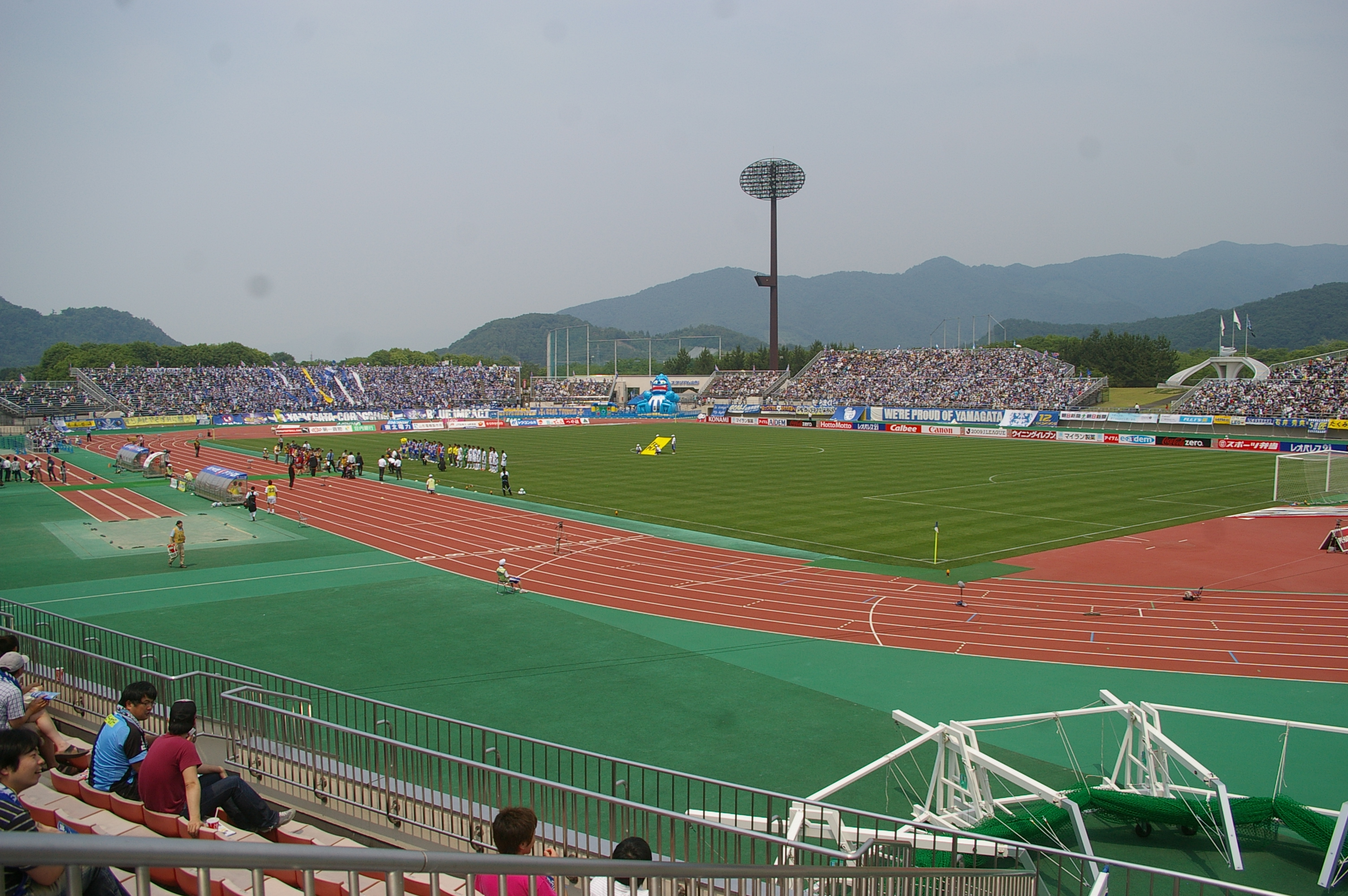 NDsoftSTUDIUM,Yamagata-pref,Japan